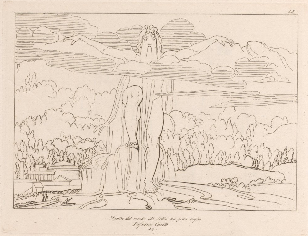 Engraving: Dentro dal monte from Divina Commedia by Dante - illustration designed by John Flaxman, engraved by Tommaso Piroli.